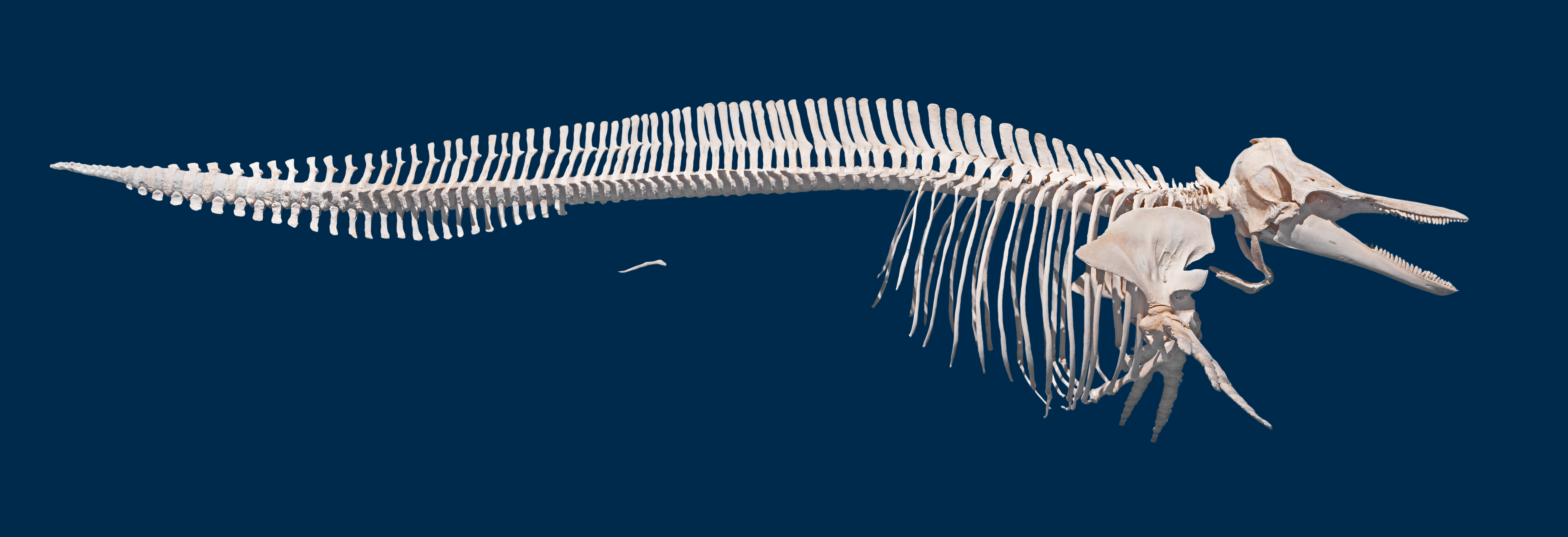 Lagenorhynchus albirostris (Gray, 1846), White-beaked Dolphin, skeleton; Special exhibition " Whales - Giants of the sea"; Staatliches Museum für Naturkunde Karlsruhe, Germany..